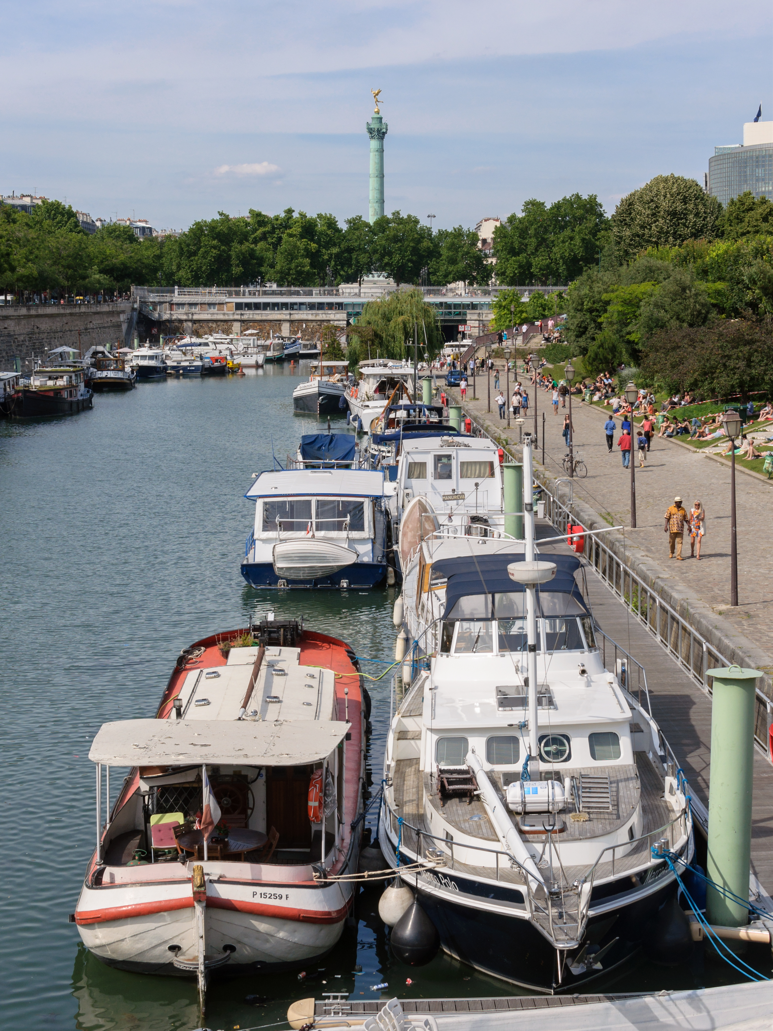 Boats in the Port de l'Arsenal, Paris, France. In the background, the July Column.